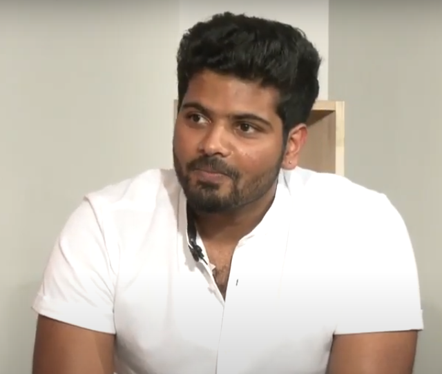 Sri Simha in interview for Matthu Vadalara in December 2019